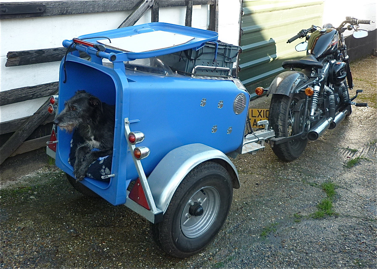 Trailer designed for the carriage of a dog behind a motorcycle